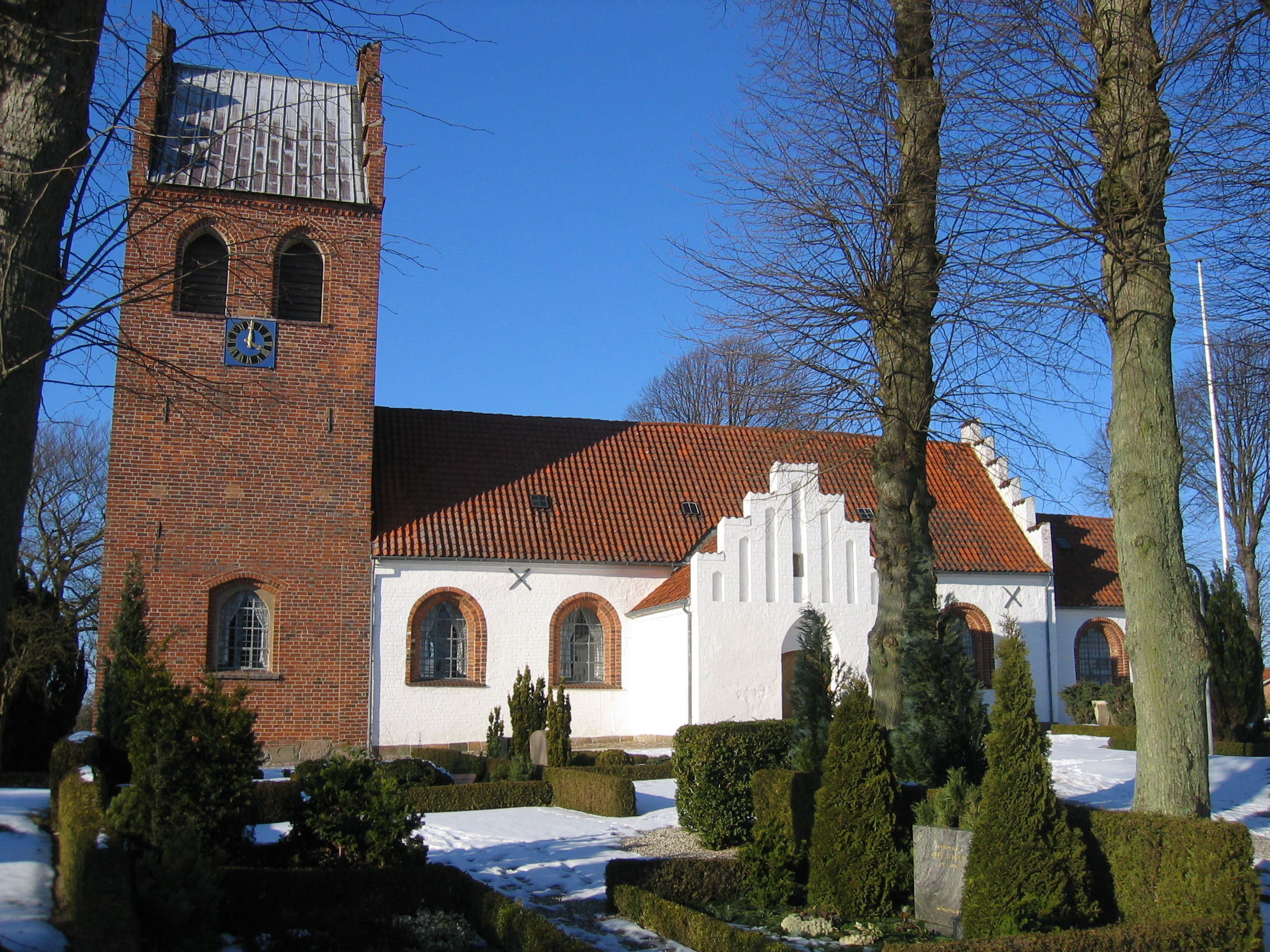 Helsinge Church, Denmark.